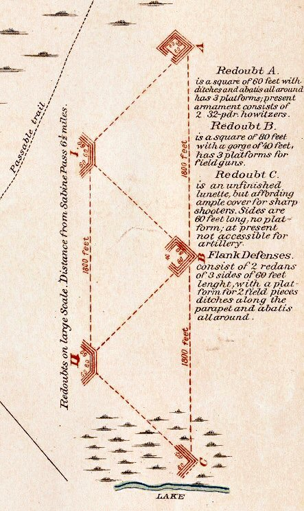 Capture of a segment of 'Plan of Sabine Pass: of its defenses and means of communications'. From the OR Atlas.